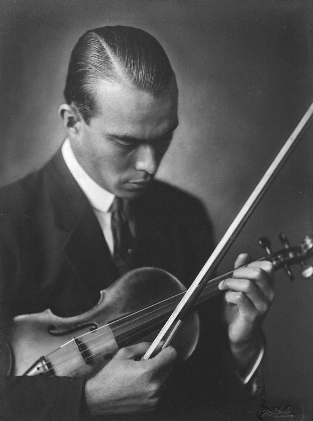 Francis Koene, Nederlands violist